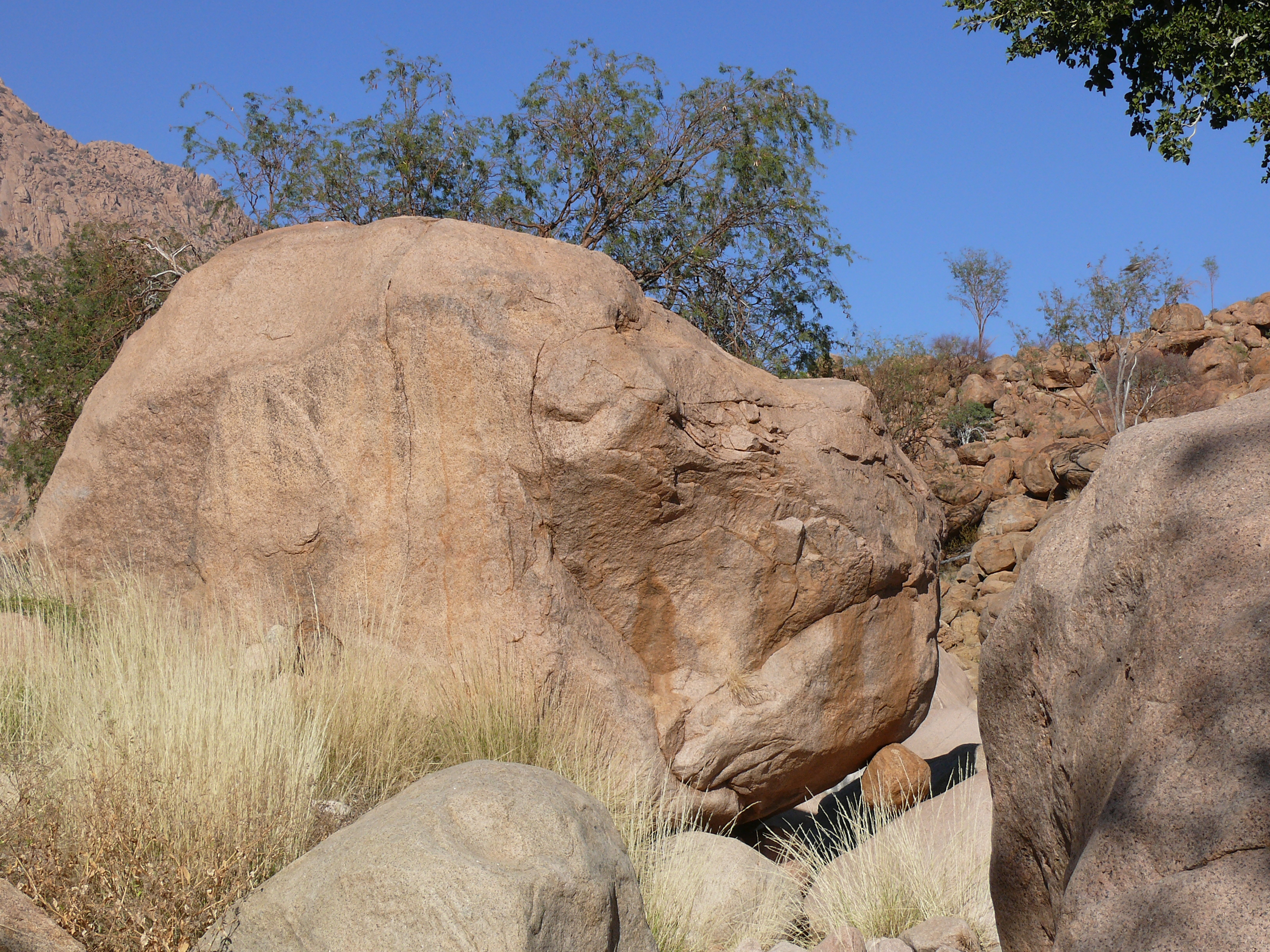 Rock in Brandberg Massif